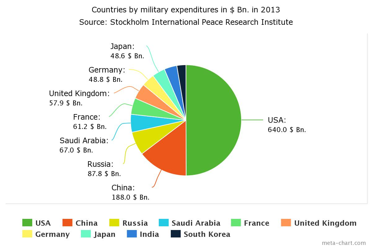 Top ten military expenditures in $ in 2013.jpg